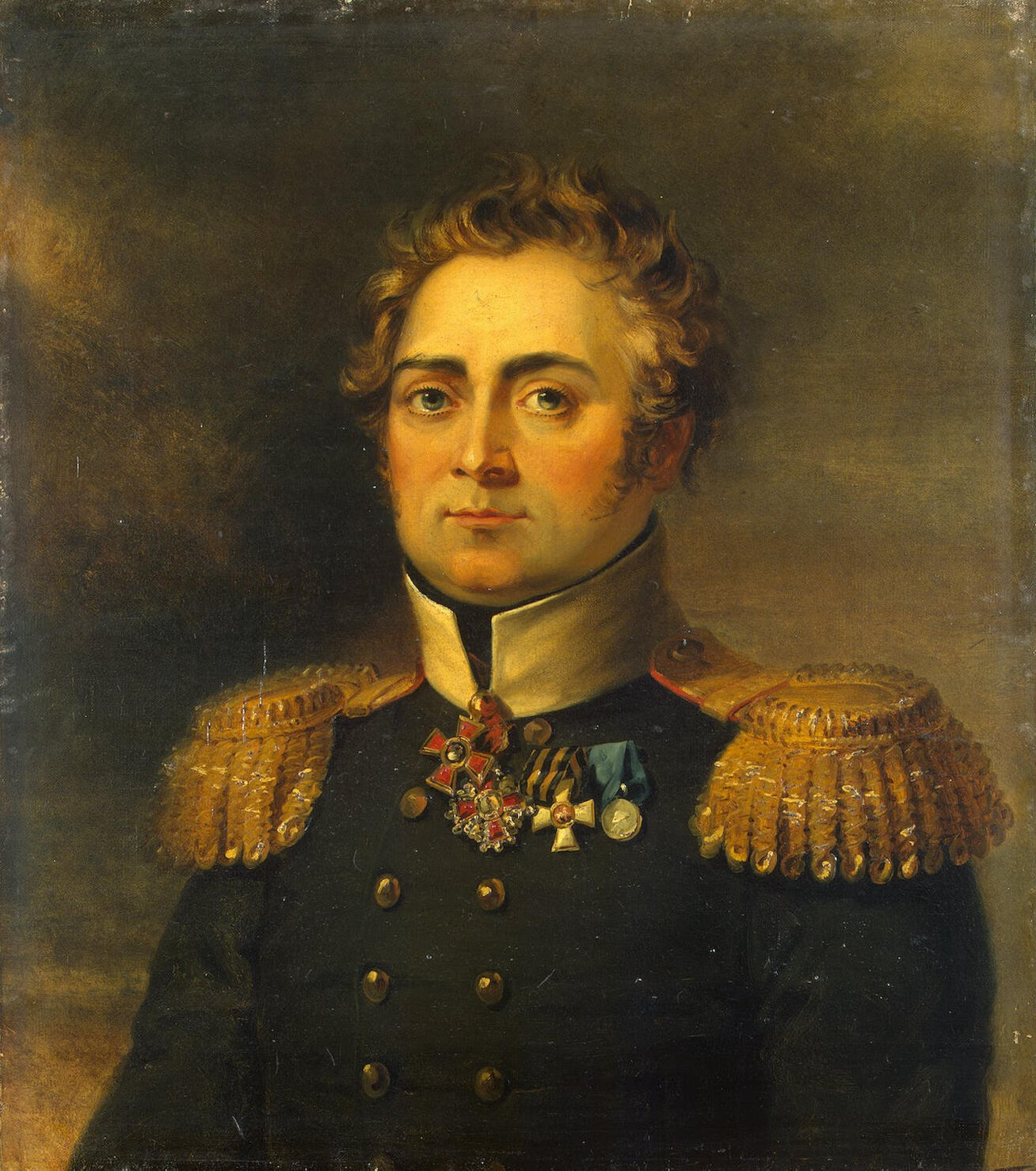 Anton_Antonovich Skalon (06.09.1767 – 05.08.1812) russian general